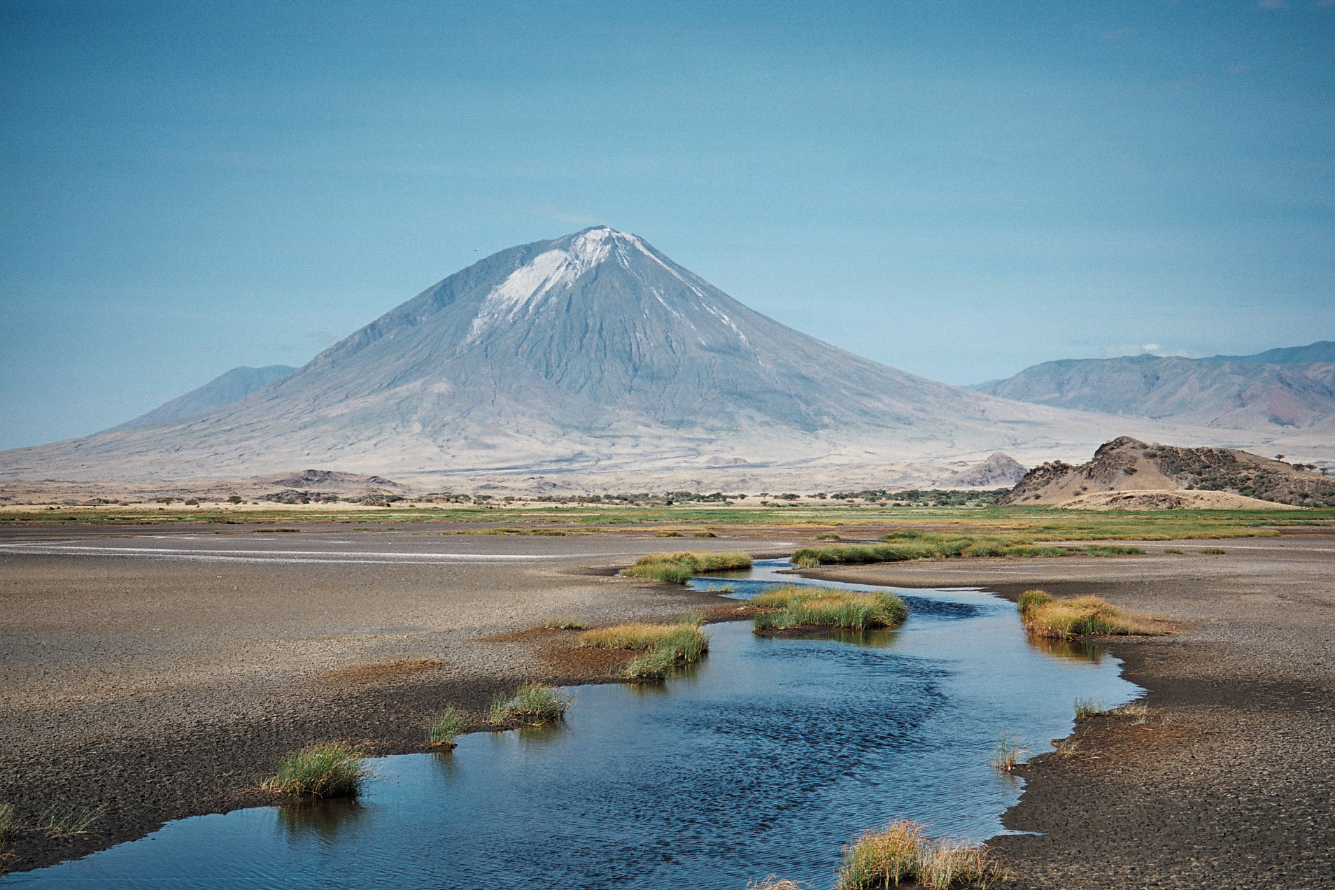 Mount Lengai seen from Lake Natron, Northern Tanzania